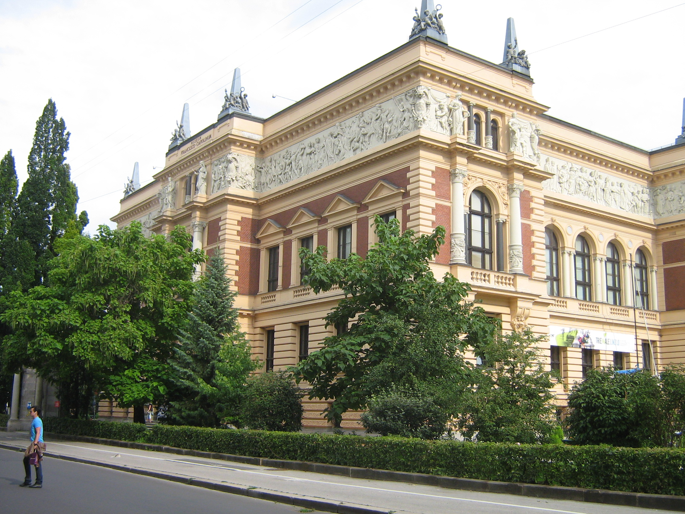 Austria, Linz, Franzisko Carolinum